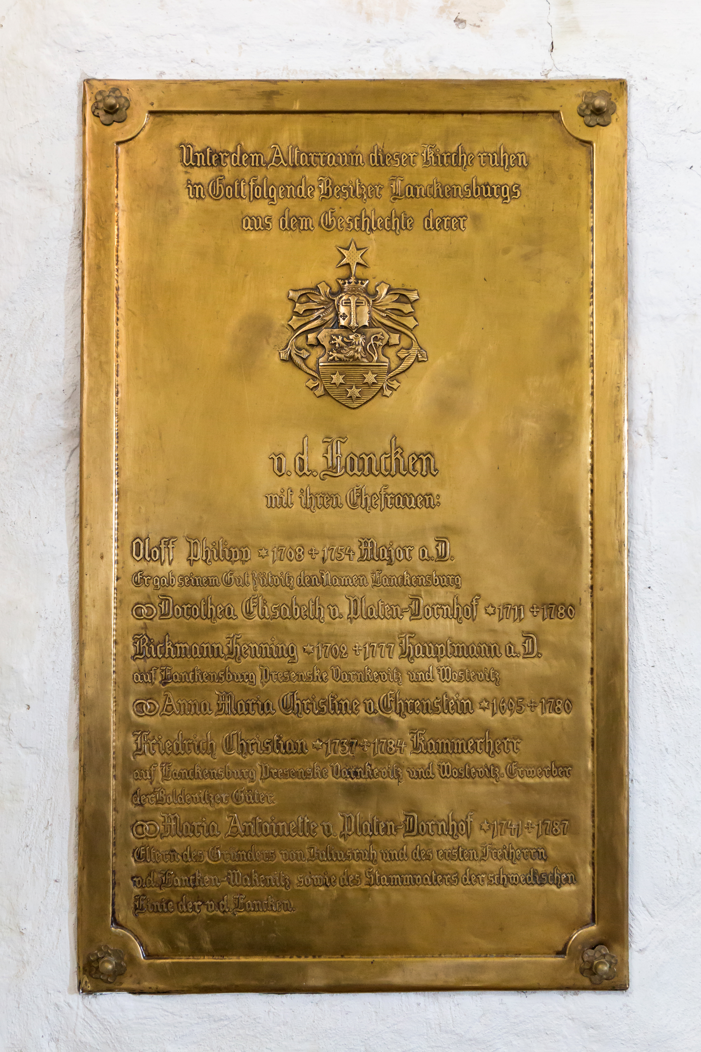 Plaque of von der Lancken family in the parish church Altenkirchen (Rügen).